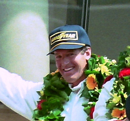 Winners Hurley Haywood, Mauro Baldi & Yannick Dalmas on the podium at the 1994 Le Mans